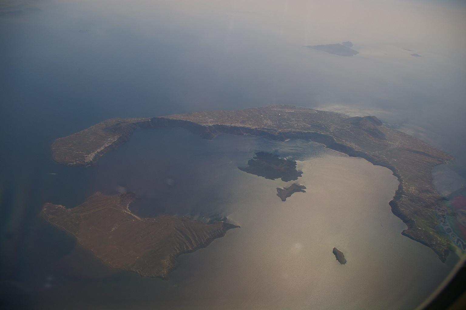 Santorini - view from airplane.